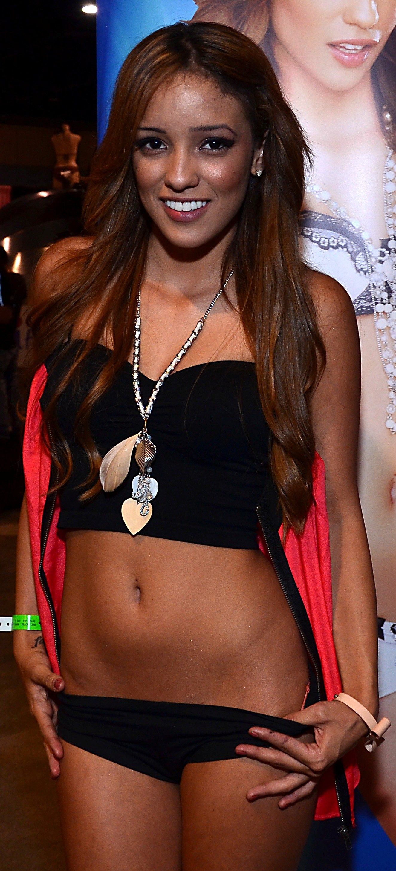 Melanie Rios at Exxxotica Miami Beach 2011